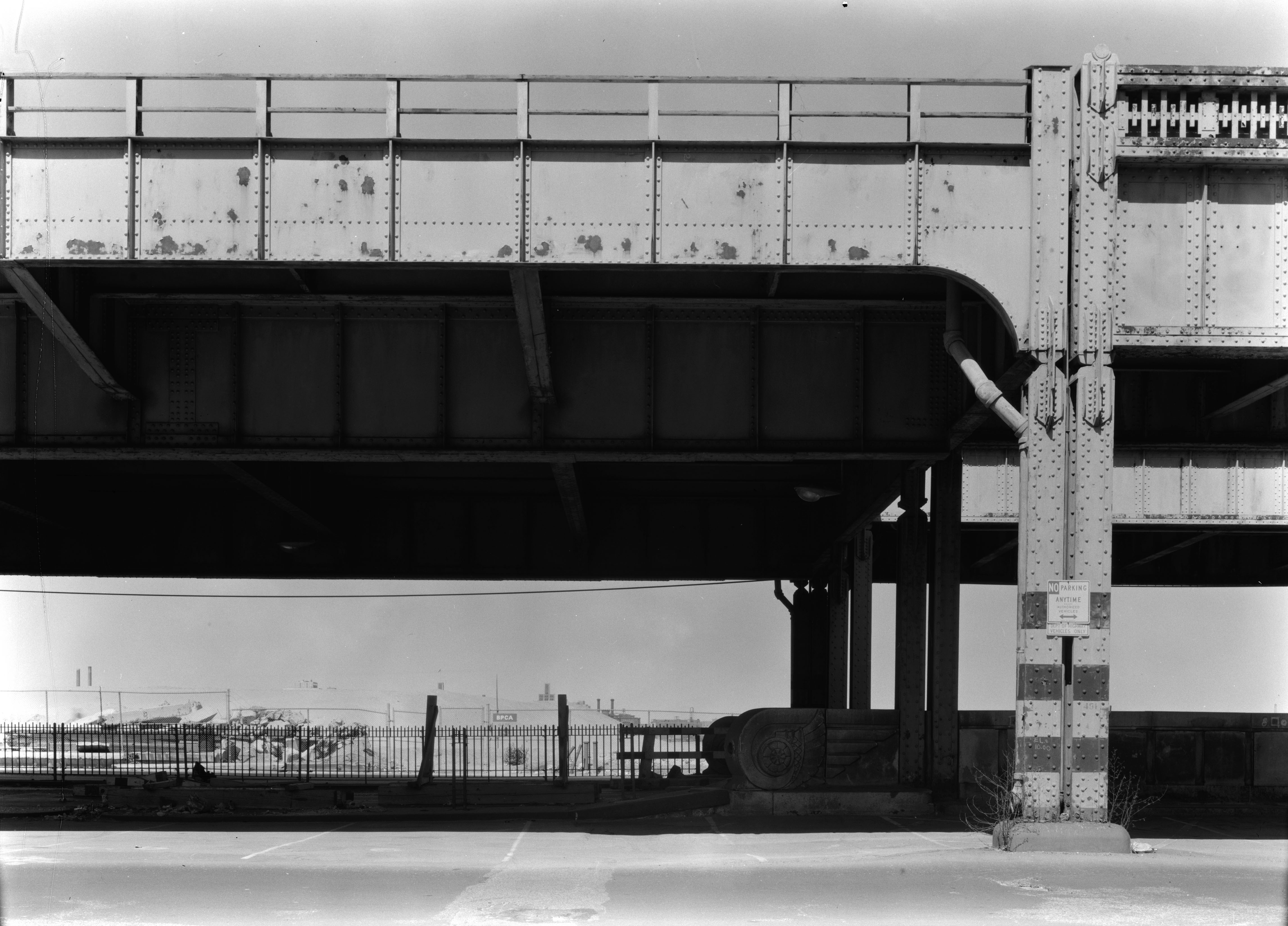 West Side Highway at Chambers St. ramp where old and new sections join.